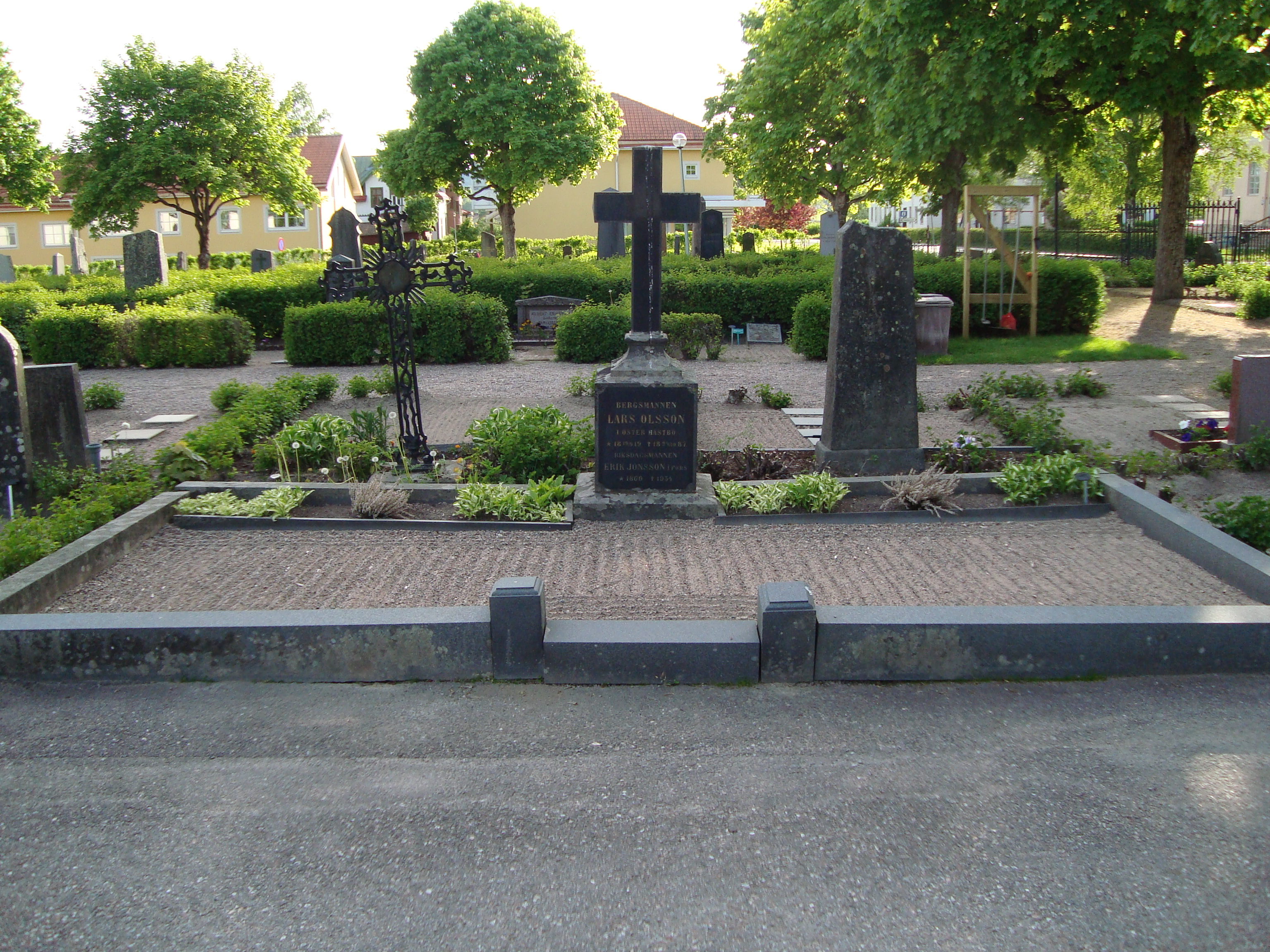 Torsåker's church, Hofors Municipality, Sweden